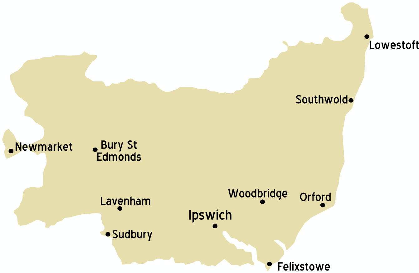 Map of Suffolk Source: :Image:UK map.svg map: England Map of: England